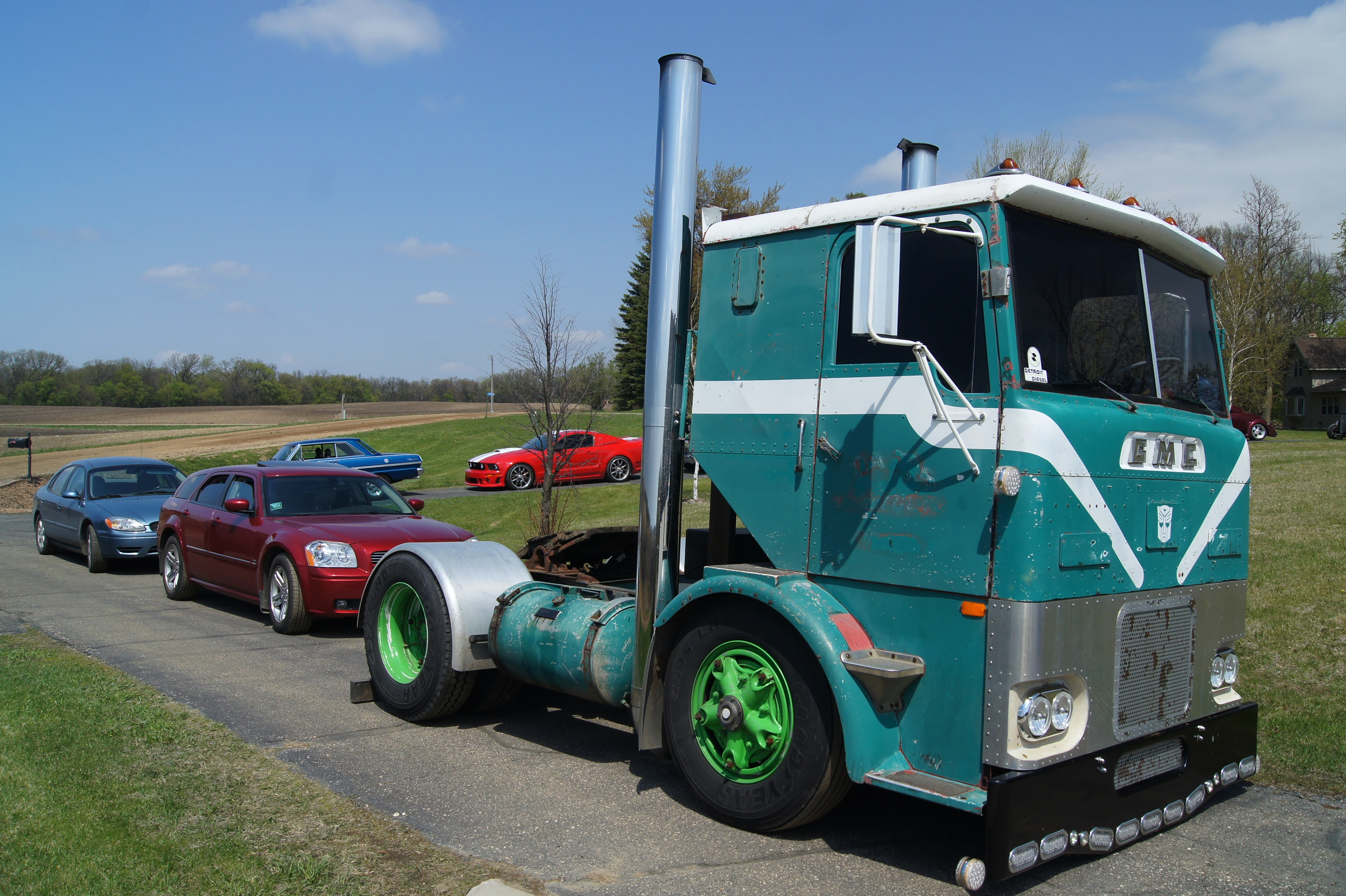 Set back axle version of the 1959-67 GMC F-Model, a.k.a. Crackerbox. The River City Street Rod Club came to visit the Heartthrob Exhaust facility in Litchfield and the Forbes Family collection. Francis Kalvoda (Honorary Ambassador for the Willmar Car Club) helped guide Gary Goblirsch to some other car related venues in the area. The first day appeared to be a great success. The weather turned beautiful and it was awesome to see some fresh old iron driving around the area. The tour ended at Schwanke's Car & Truck Museum Click here for more car pictures at my Flickr site.